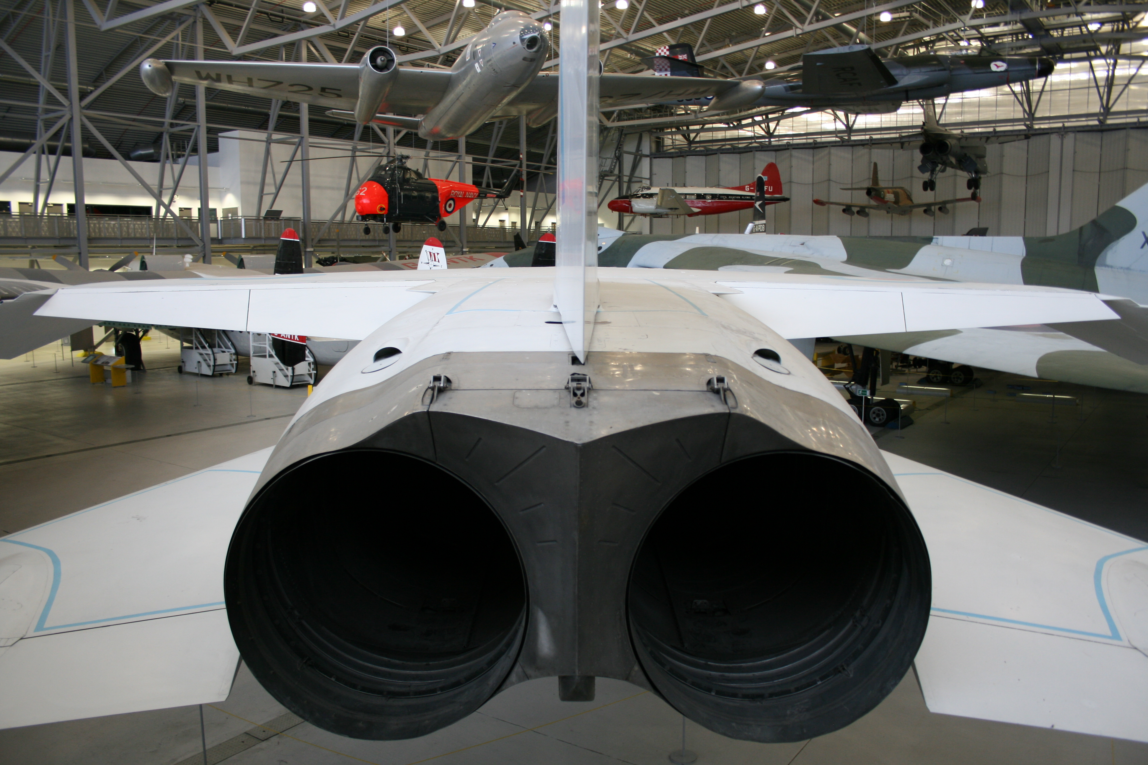 Rear view of a British Aircraft Corporation TSR-2 at the Imperial War Museum Duxford, England.